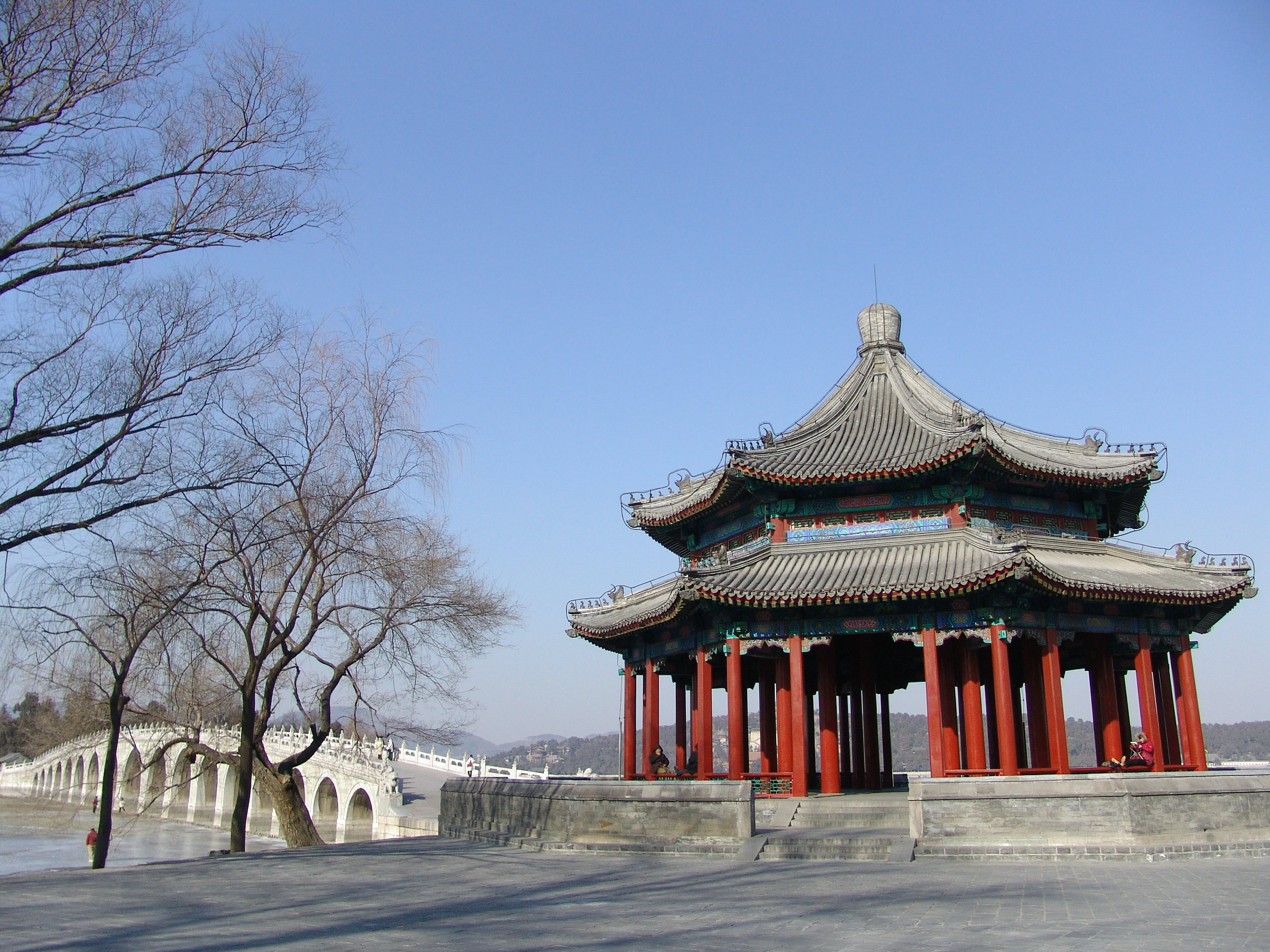 Summer Palace building